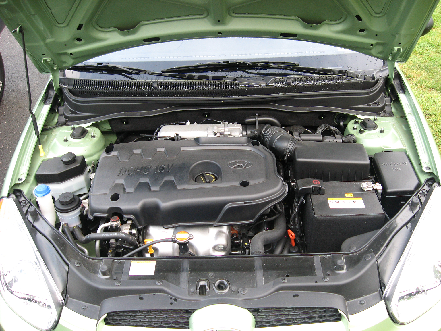 An image of the 1.6L Alpha II Engine in a 2008 Hyundai Accent. Engine is completely stock and has about 300 miles on it at the time of this picture.